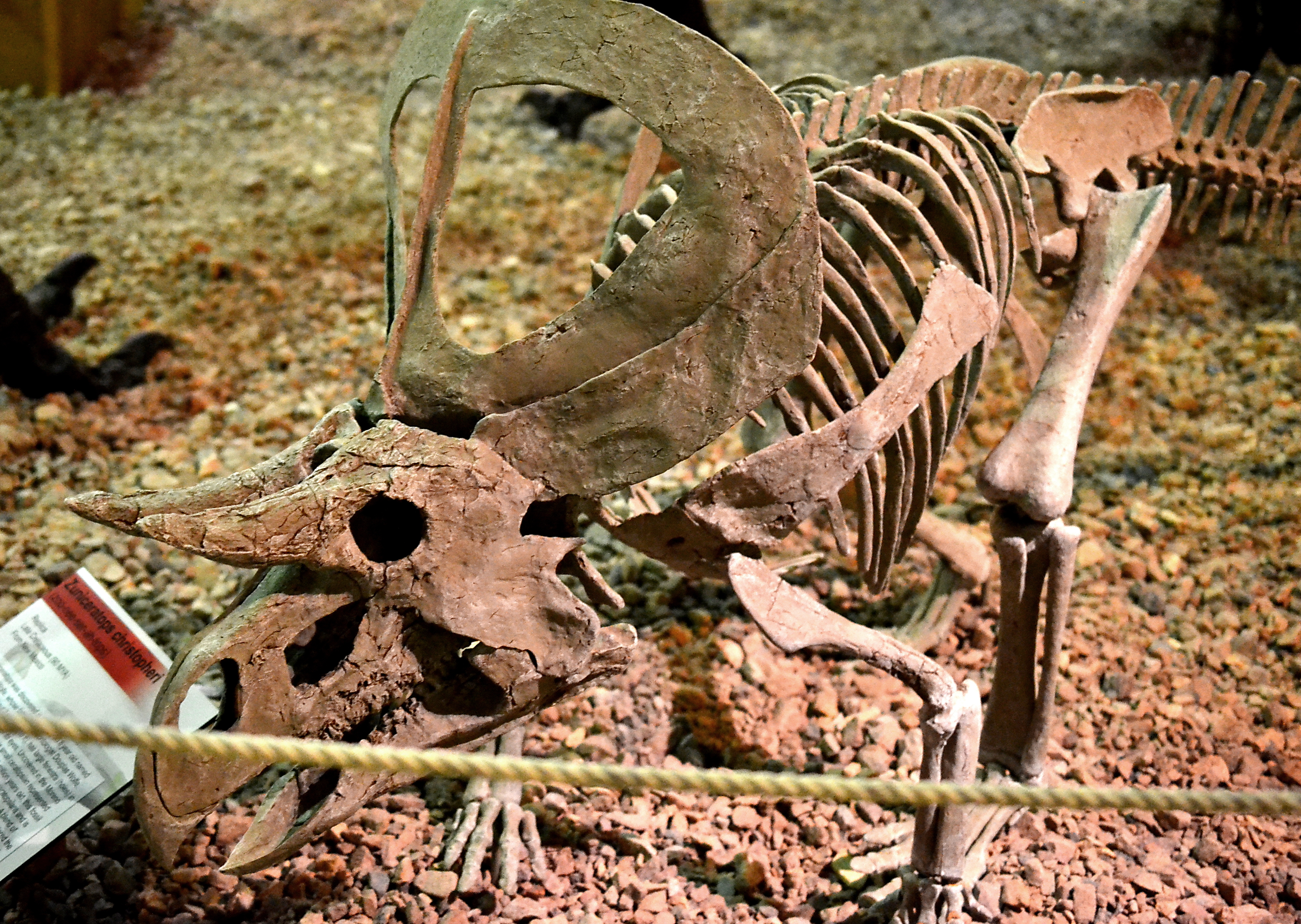 Wyoming Dinosaur Center